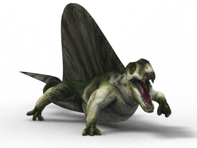 Dimetrodon